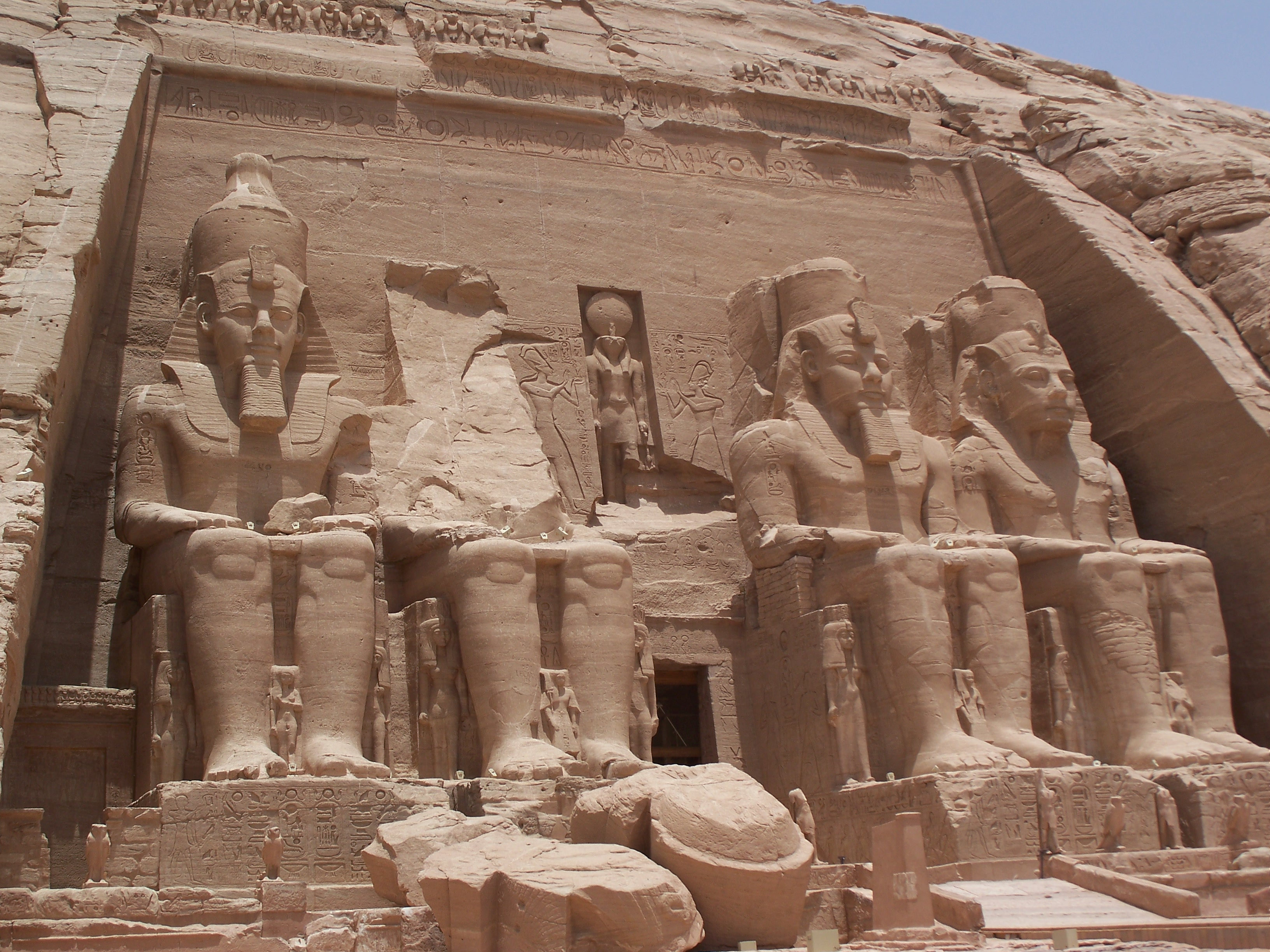 Abu Simbel Temple of Ramesses II. Taken by myself. May 30, 2007